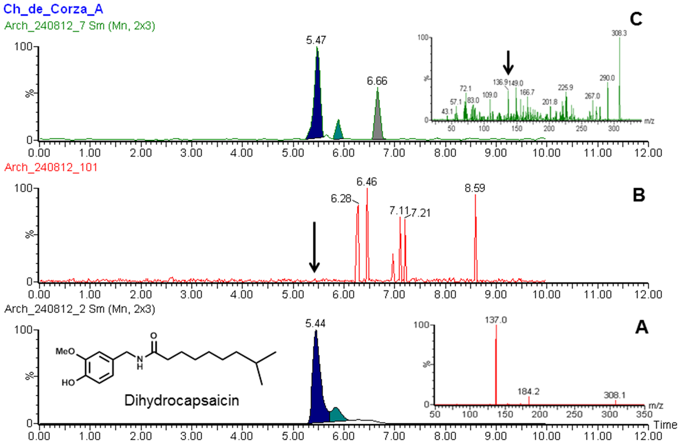 UPLC/MS-MS chromatograms illustrating (a) Standard dihydrocapsaicin (b) Blank (c) Representative Corza sample confirming the presence of dihydrocapsaicin. show more Insets: MS/MS spectra of standard dihydrocapsaicin (A) and from sample extract (B). Samples were extracted and analyzed as described in methods.